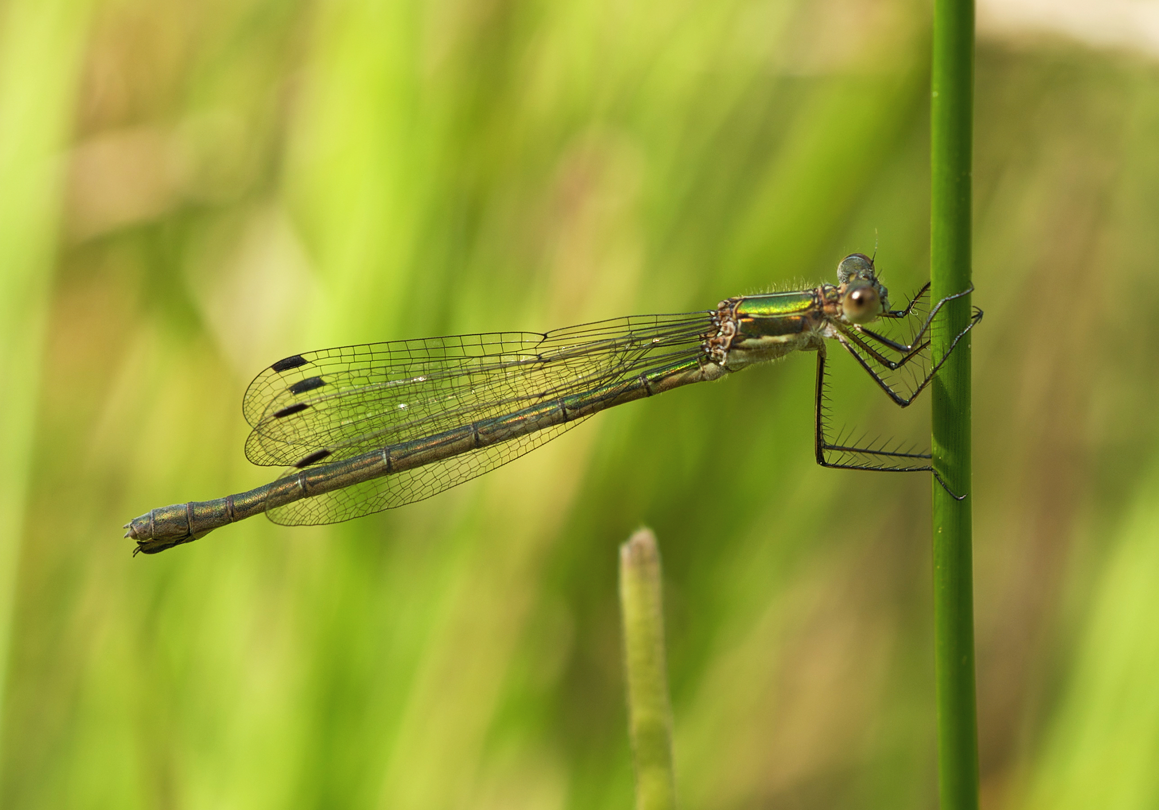 Female Emerald Damselfly (Lestes sponsa), Chemnitz, Germany